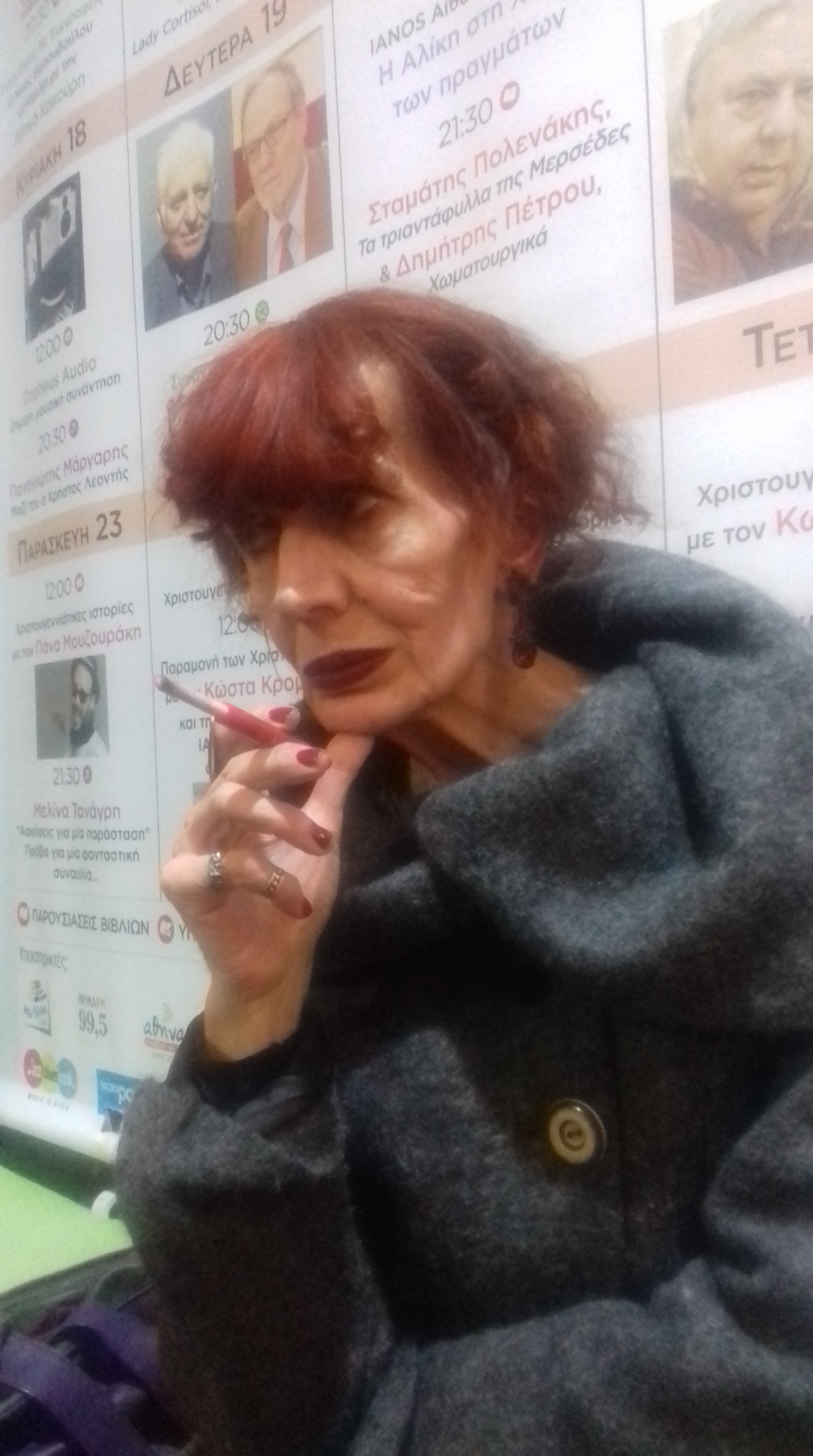 Ζυράννα Ζατέλη writer